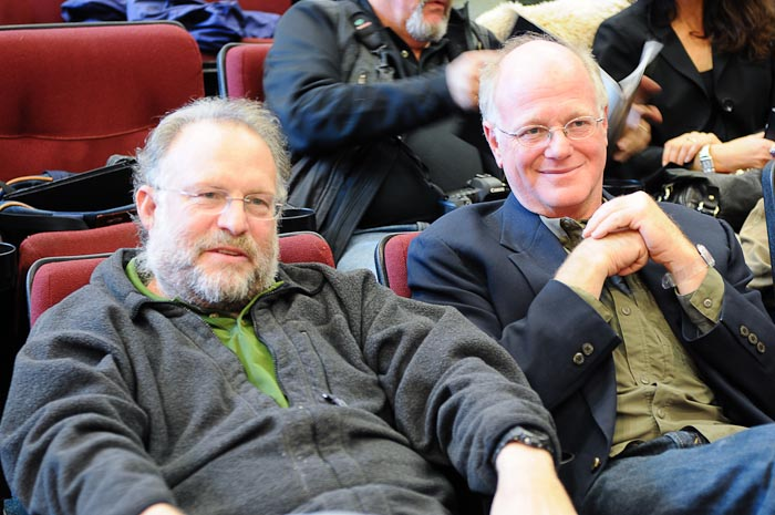 Jerry Greenfield (left) and Ben Cohen (right), founders of Ben & Jerry's Ice Cream